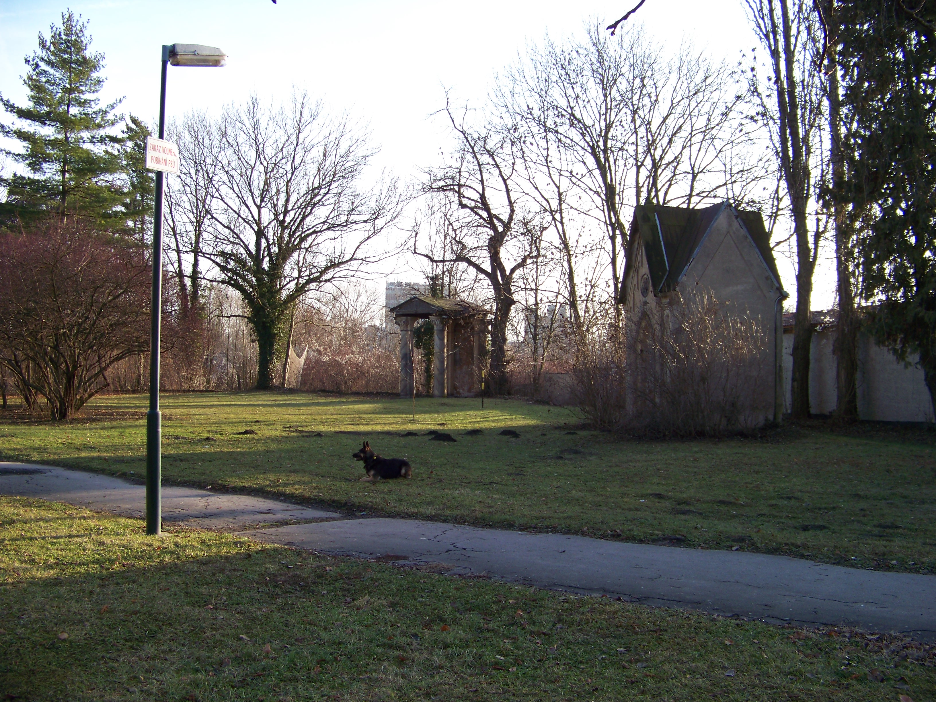 Nymburk, Nymburk District, Central Bohemian Region, Czech Republic. Tyršova, a former cemetery at the church of Saint George. - OpenStreetMap (Info)